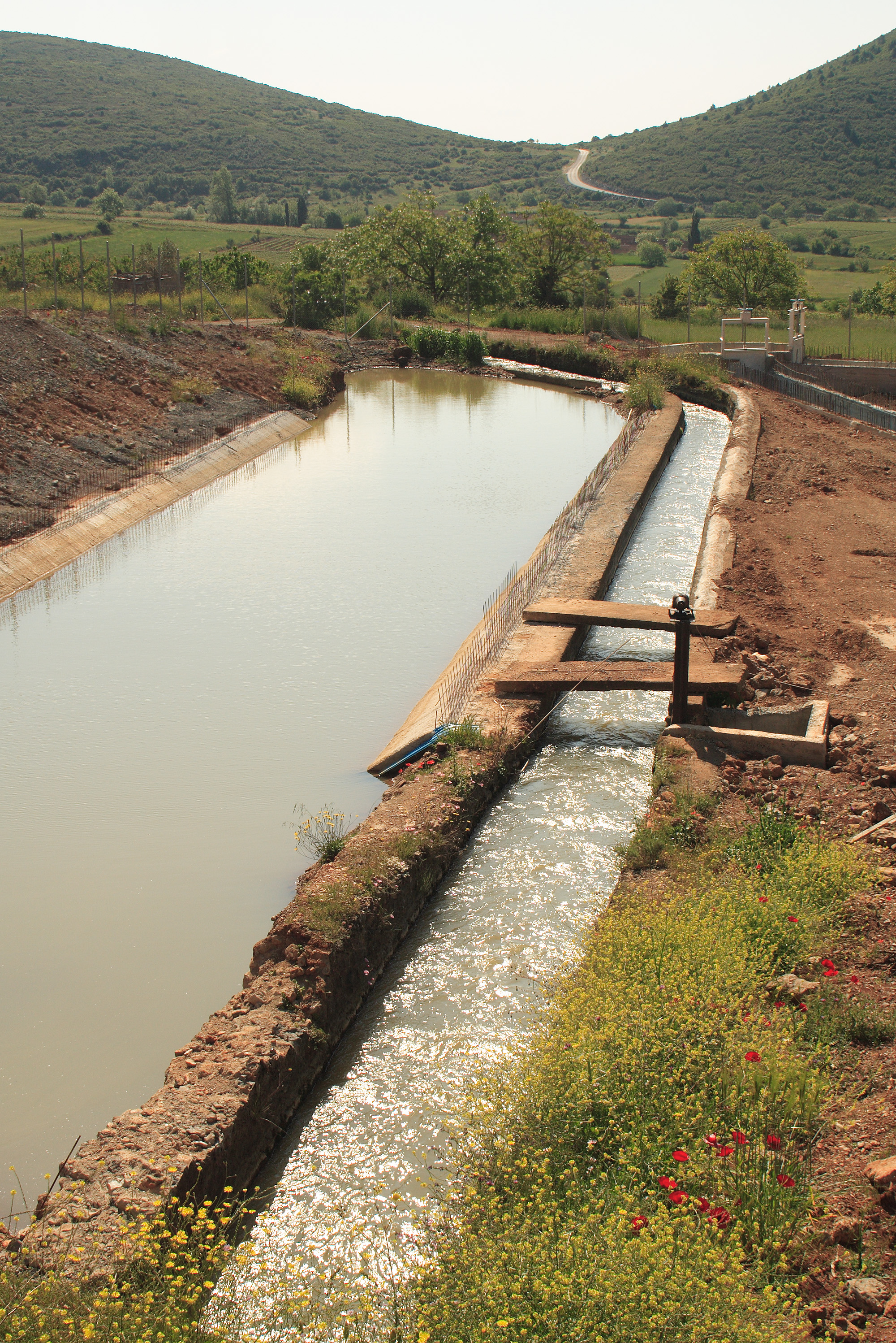 Historical masterpiece of 130 AD, after repairs 1881-1885 in use again. 2002: Harmful new waterpipelinesystem - badly designed.